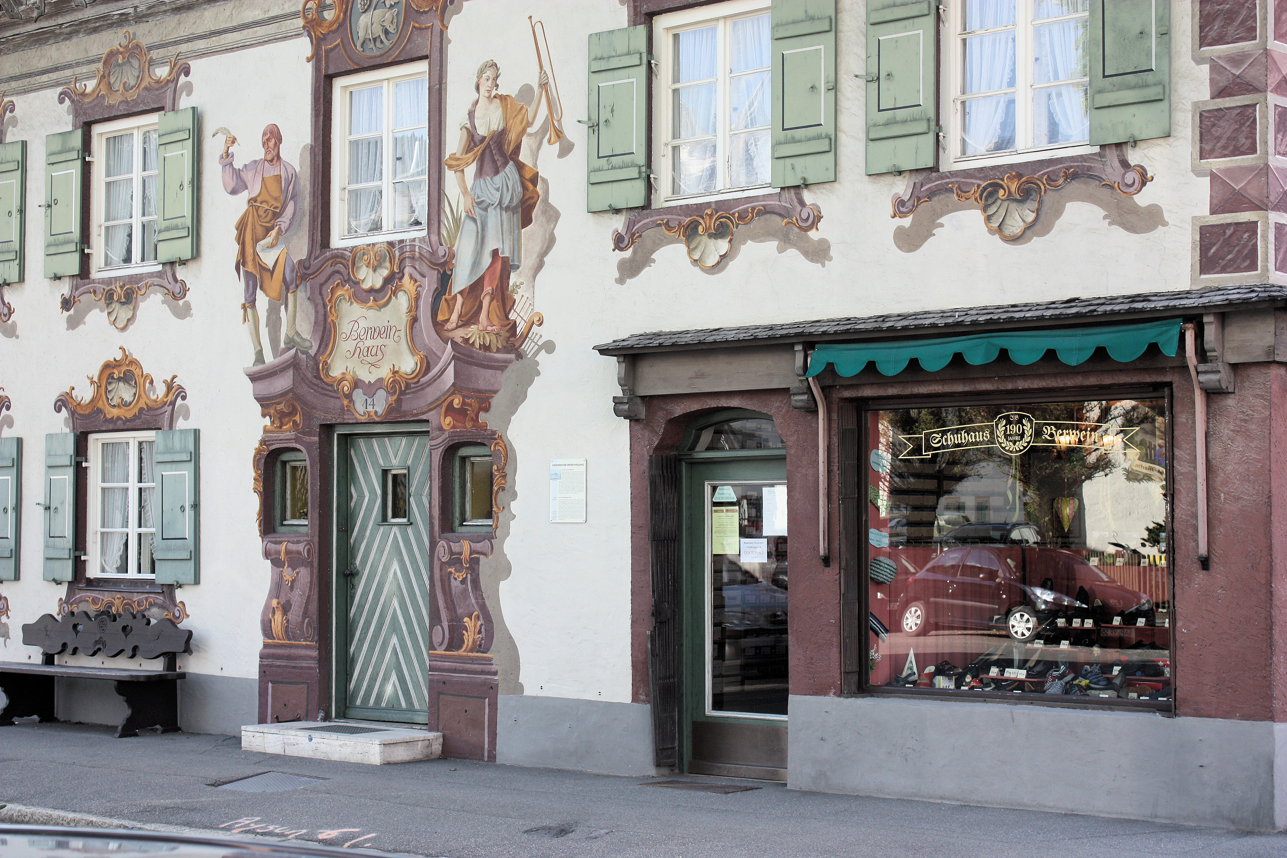 Garmisch-Partenkirchen, house 14 Badgasse